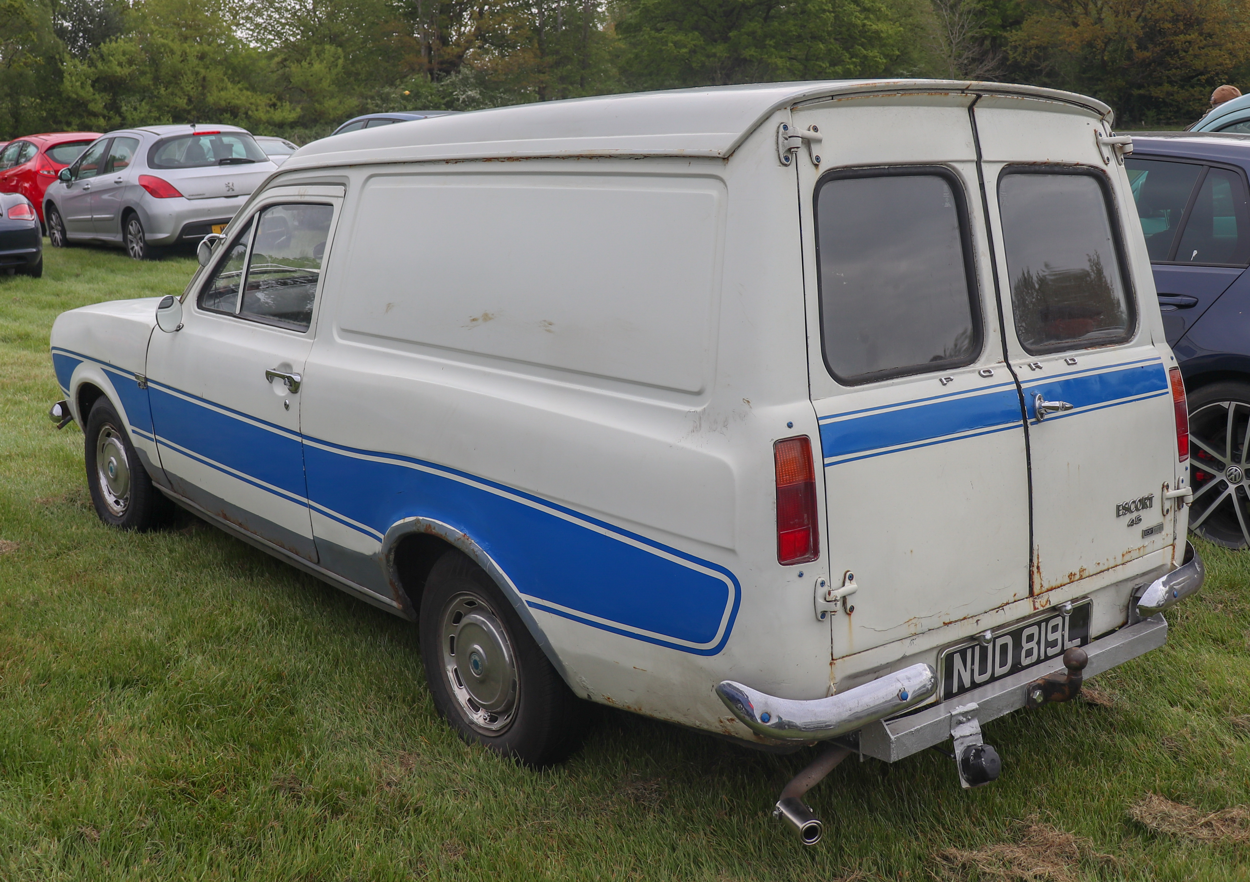 1973 Ford Escort 8 cwt STD Van 1.3 Rear Taken in Stoneleigh, Warwickshire